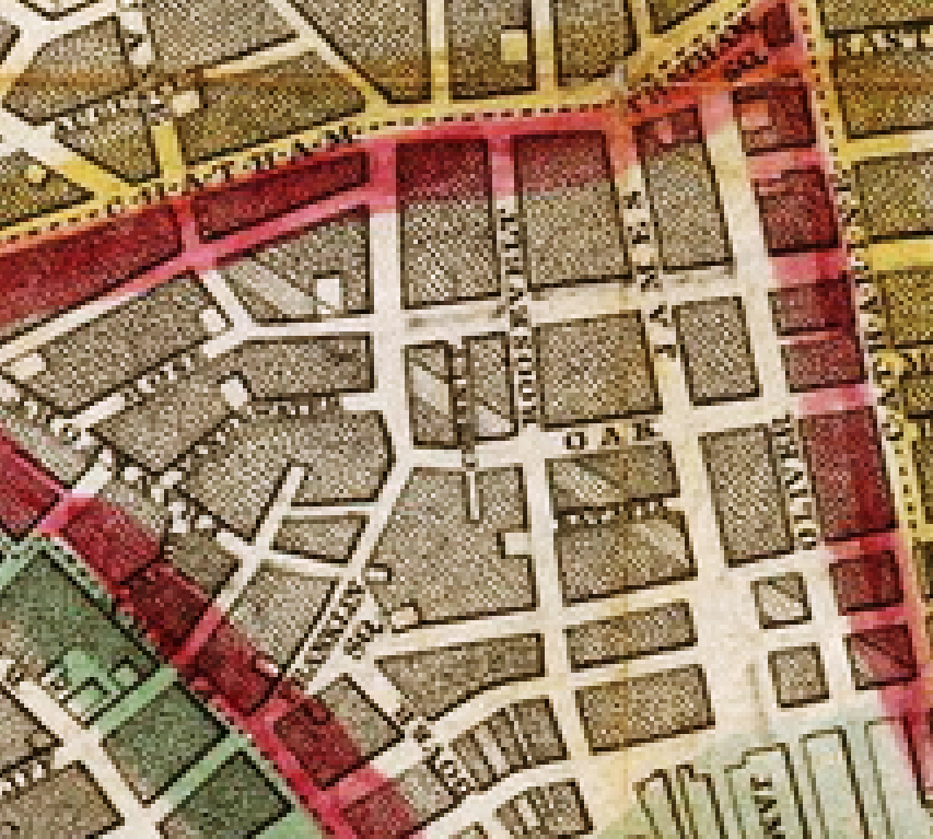 The Roosevelt Family owned Real Estate on Roosevelt Street.